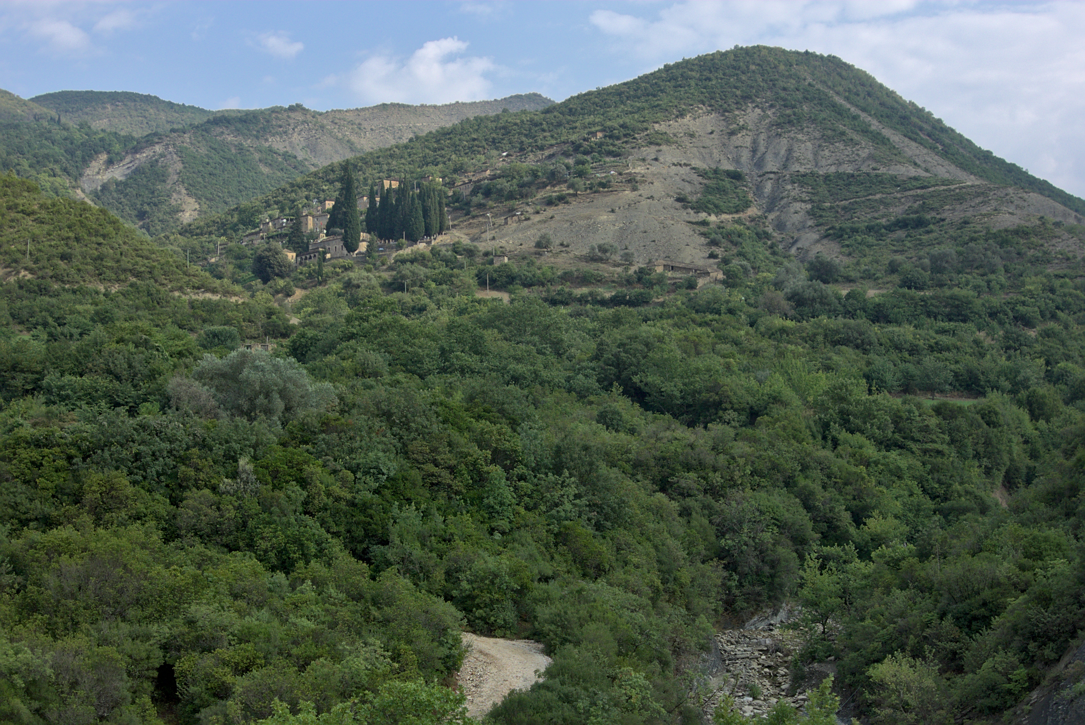 St. Mary's Church in Bënjë-Novoselë, Përmet